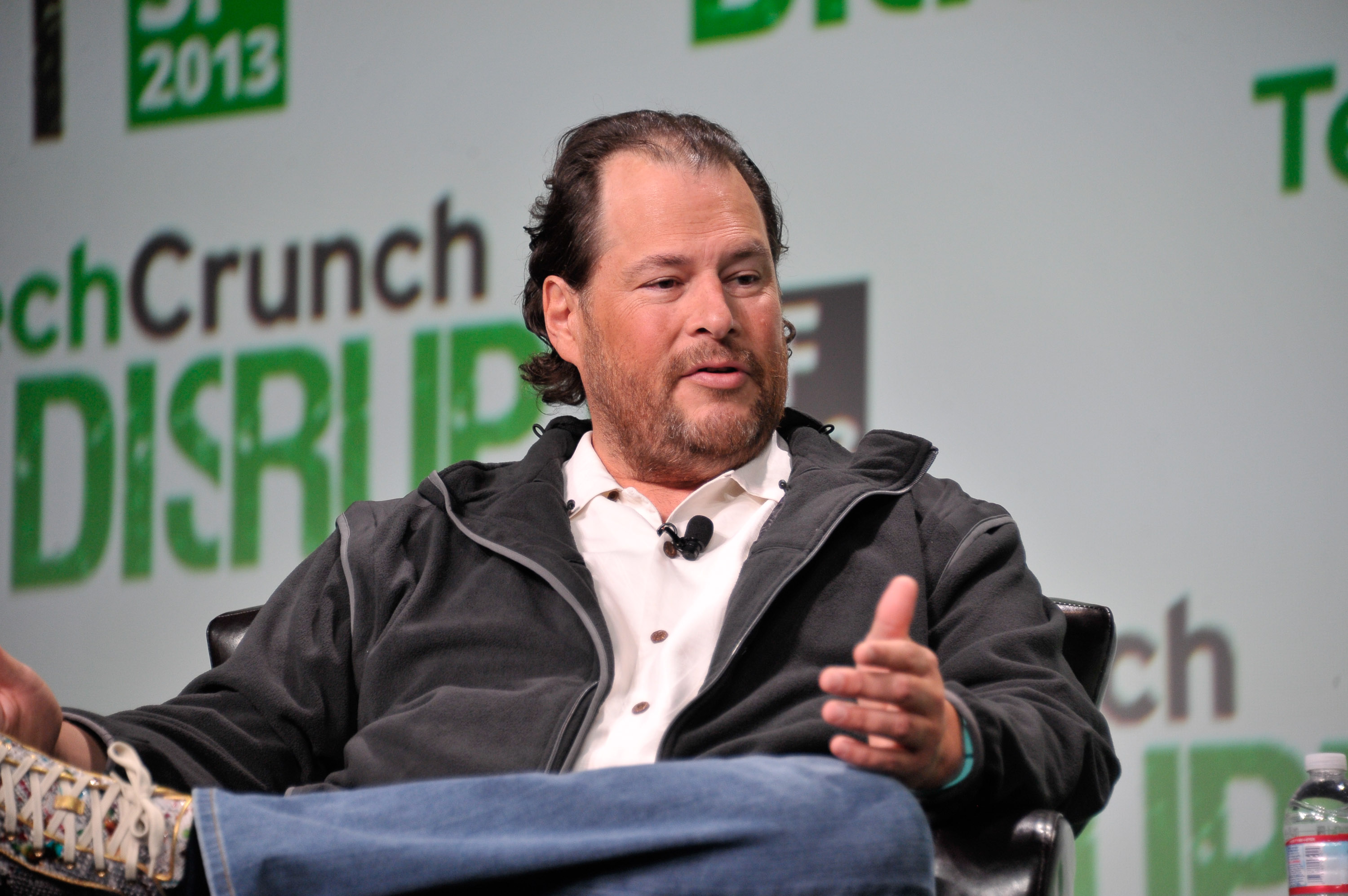 Marc Benioff 2013